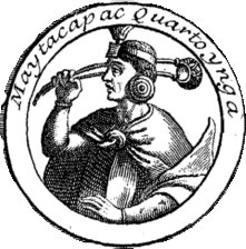 Portrait of Mayta Capac, detail of the frontispiece to the fifth Decade of Historia general de los hechos de los castellanos en las Islas y Tierra Firme del mar Océano que llaman Indias Occidentales by Antonio de Herrera